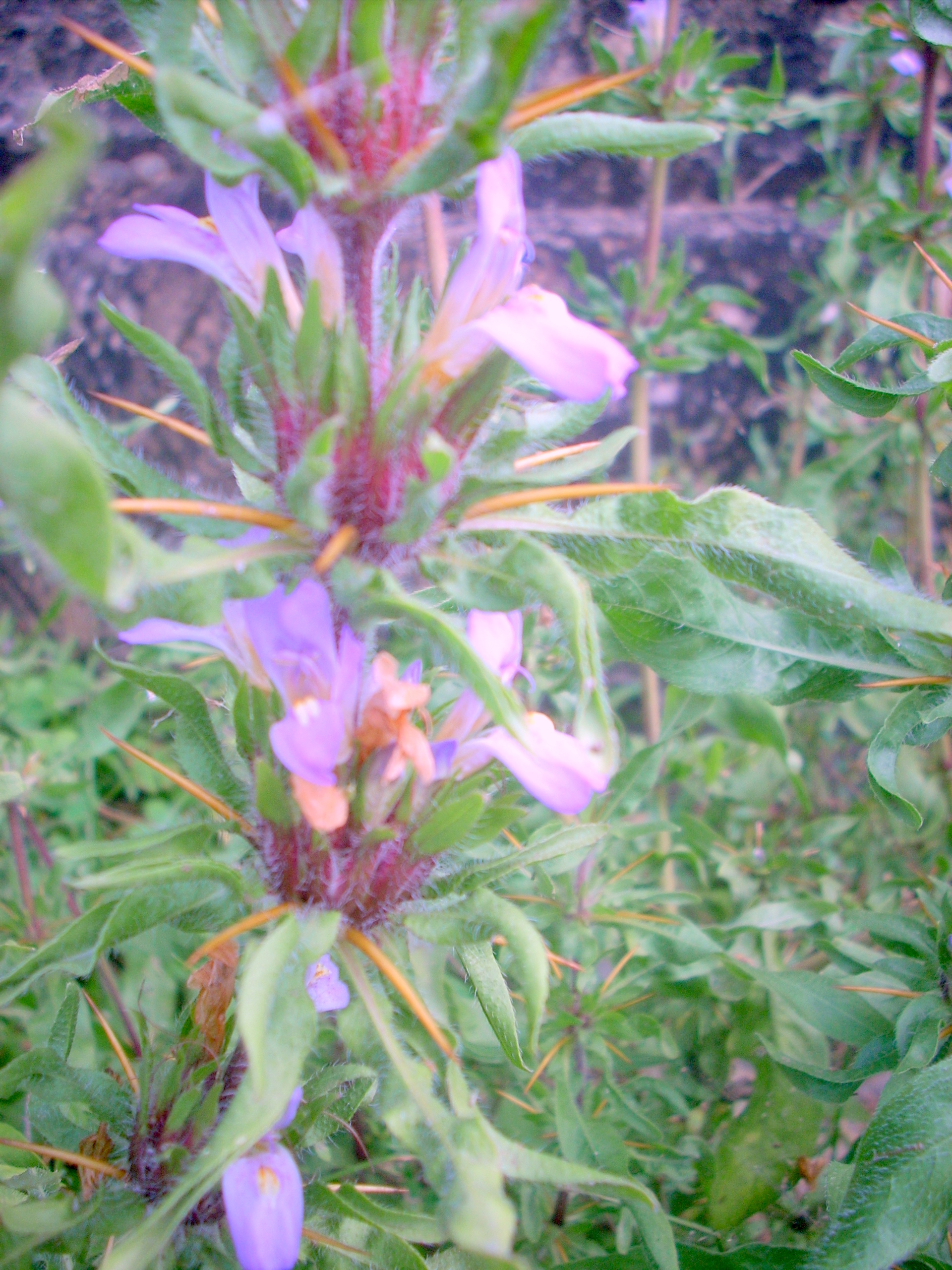 Astercantha_longifolia